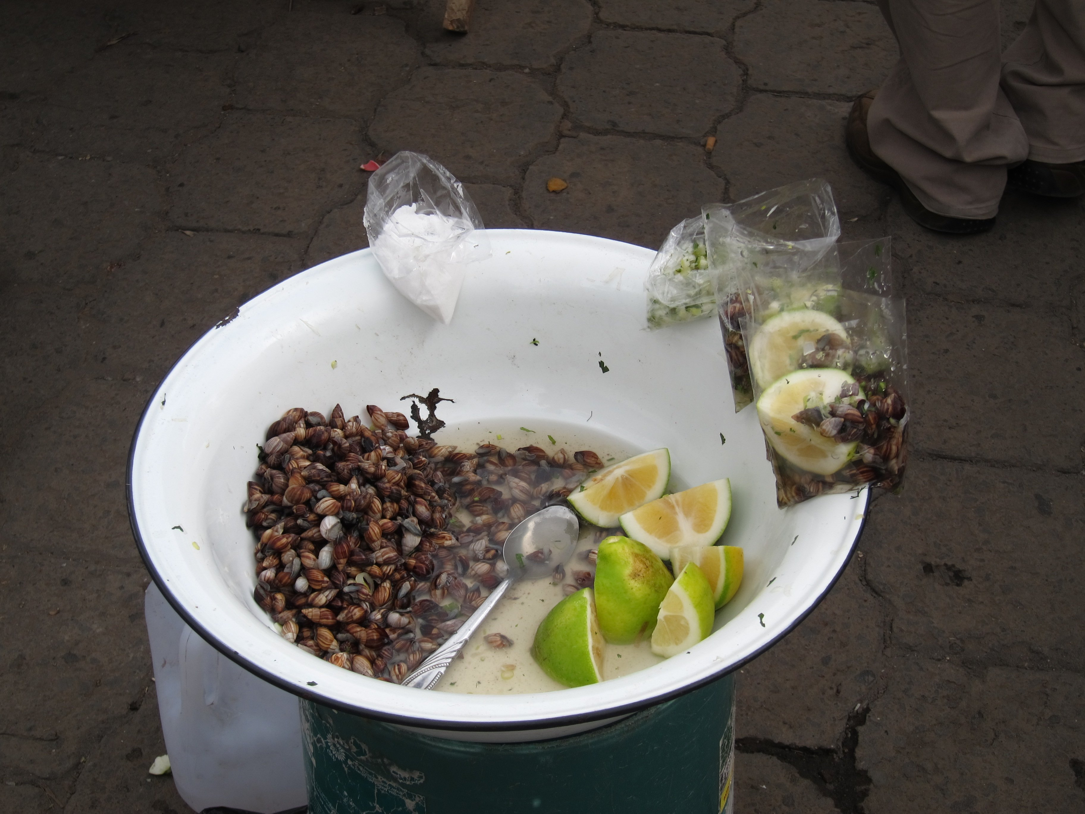 Raw snails Naesiotus sp. being sold for consumption in Otavalo, Ecuador.